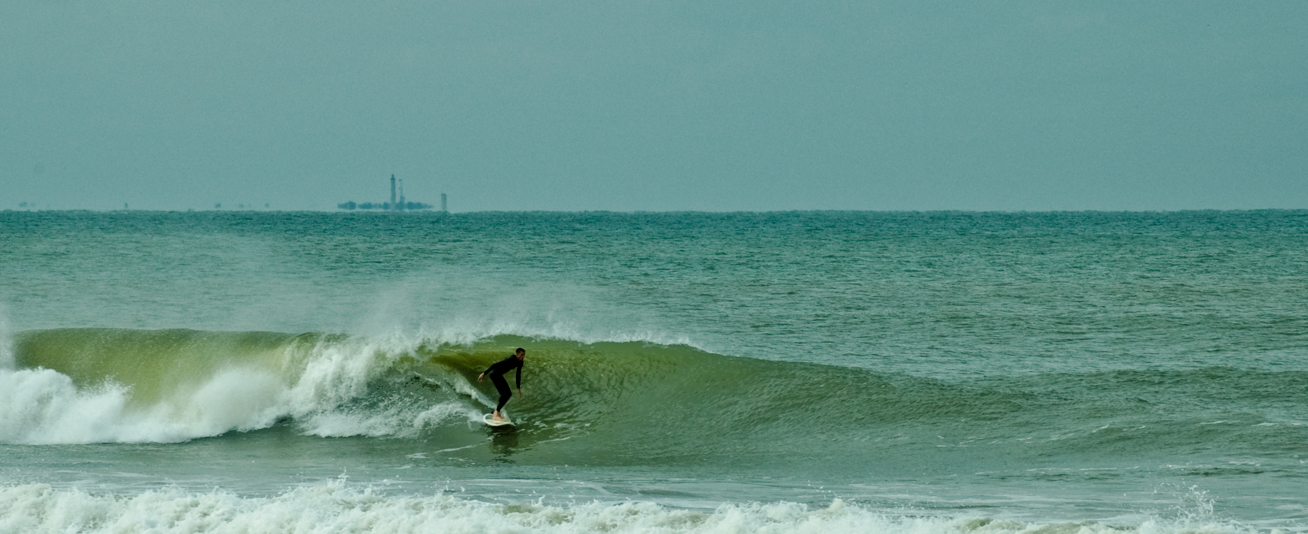 bud bud le 24 septembre 2010 pris par moi même (suivre lien)